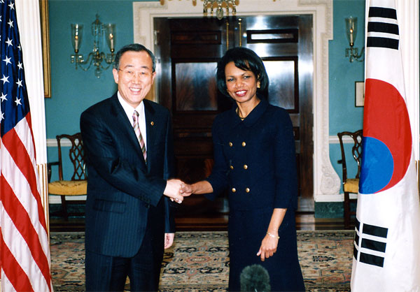 Ban Ki-moon, South Korean Foreign Minister and UN Secretary General, with US Secretary of State Condoleezza Rice.